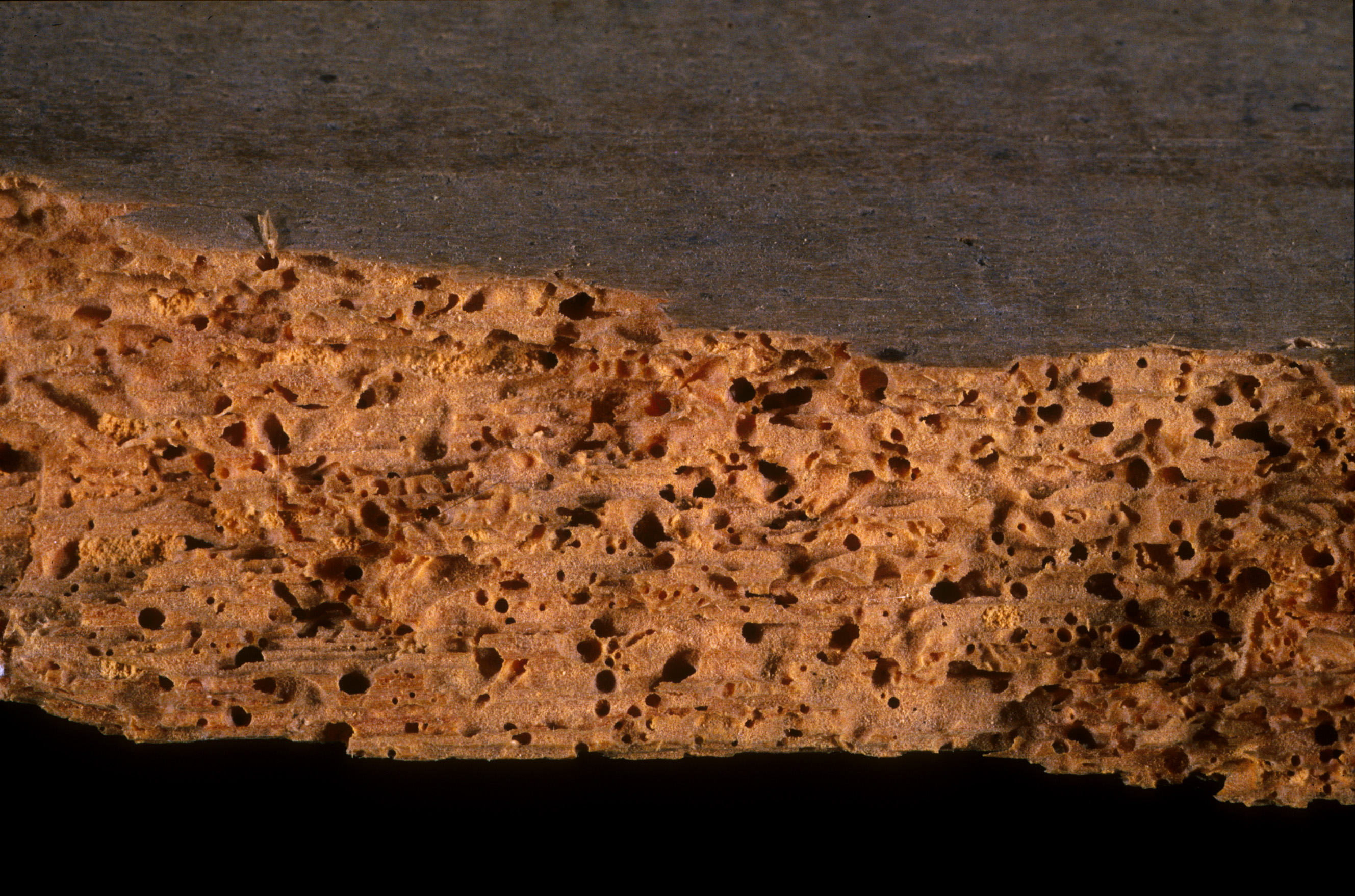 Wood damaged by common furniture beetle.